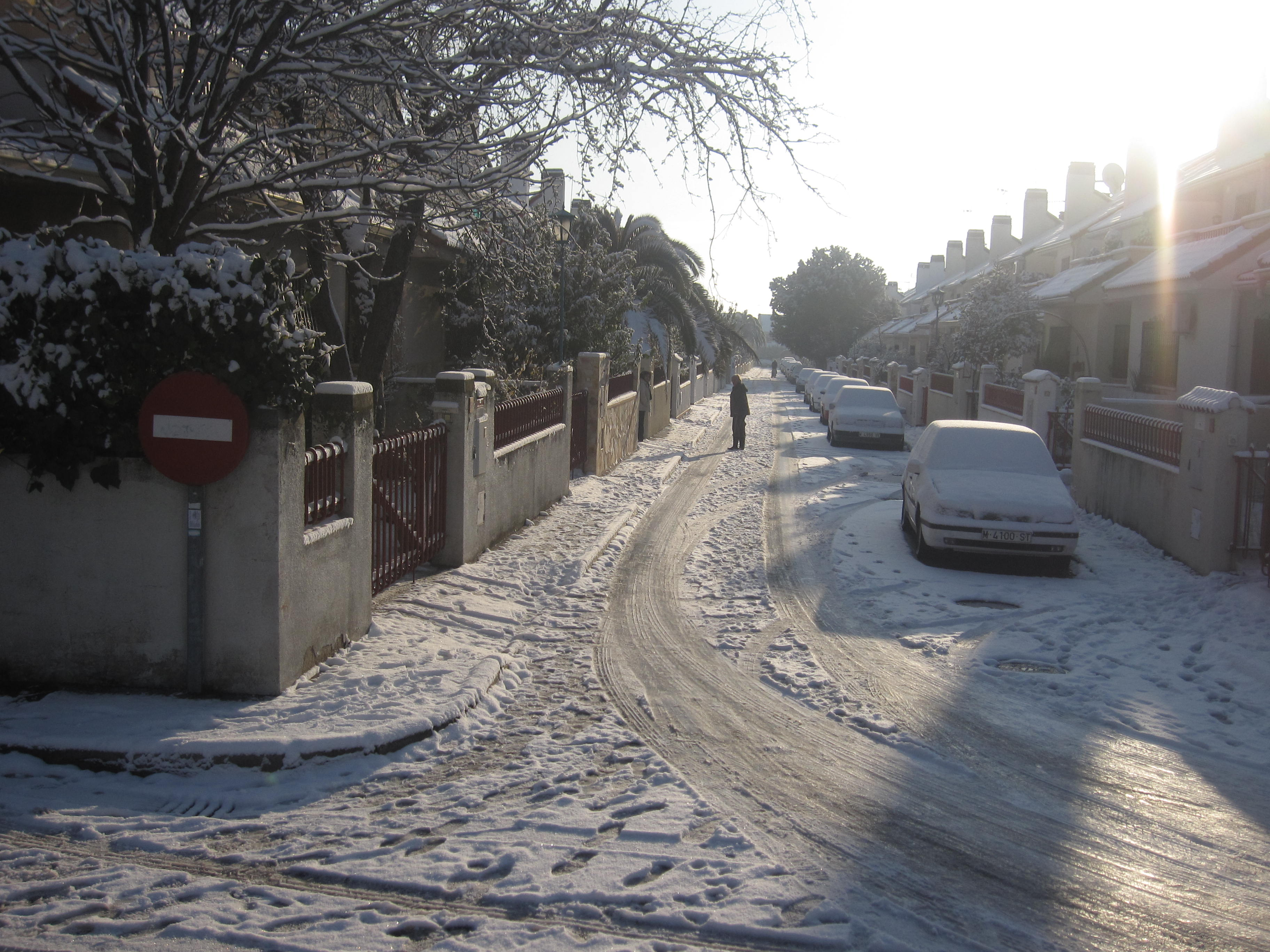 A street in the Sector 3 (Getafe), Community of Madrid, Spain.